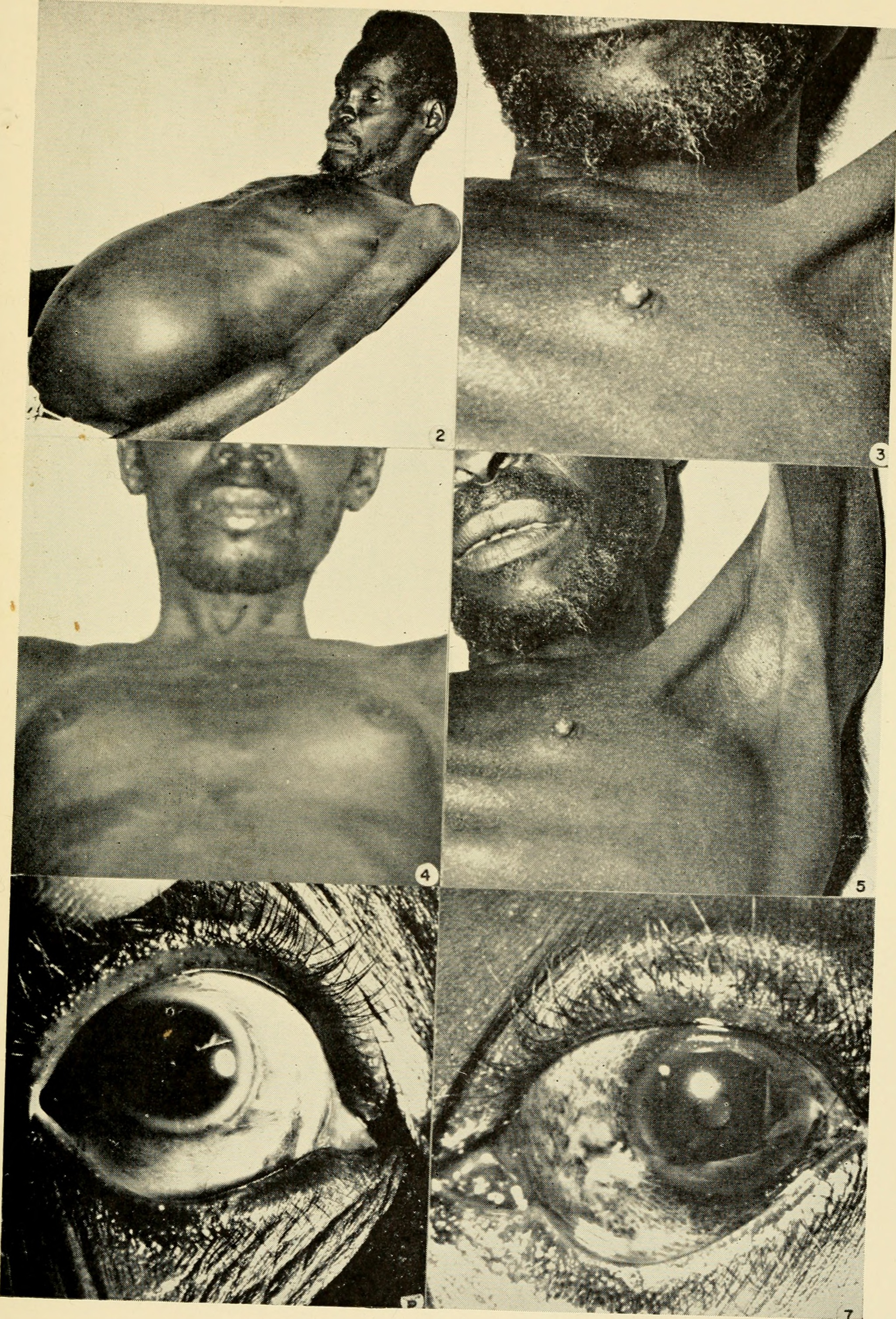 Title: Ciba Foundation colloquia on ageing Year: 1957 (1950s) Authors: Ciba Foundation; Wolstenholme, G. E. W. (Gordon Ethelbert Ward) Subjects: Old age; Aging; Animals -- growth & development Publisher: Boston, Little, Brown Text Appearing Before Image: PLATE I Text Appearing After Image: (facing page 110